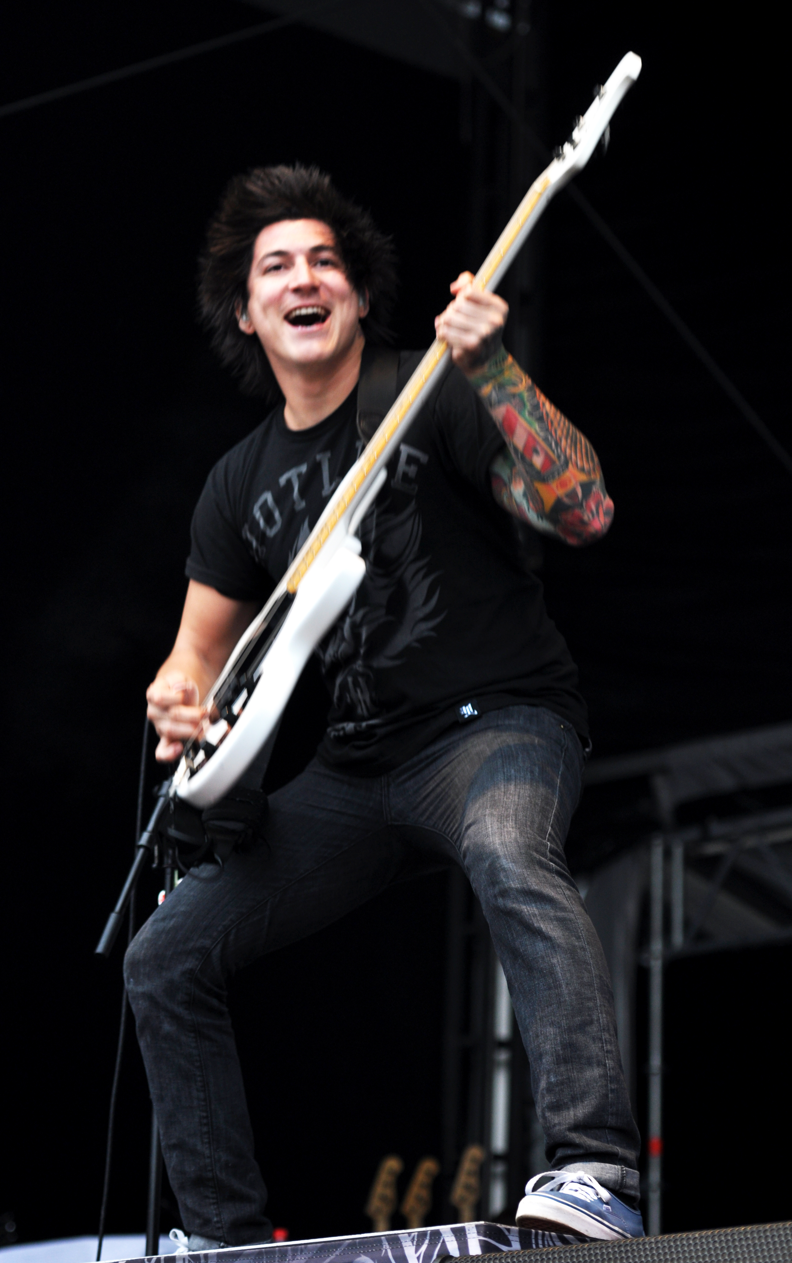 Jaime Preciado of Pierce the Veil at Rock am Ring 2013